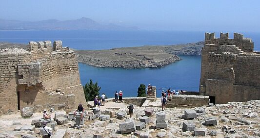 View from the acropolis of Lindos